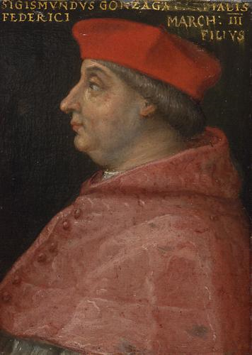 Portrait of Sigismondo Gonzaga (1469-1525)